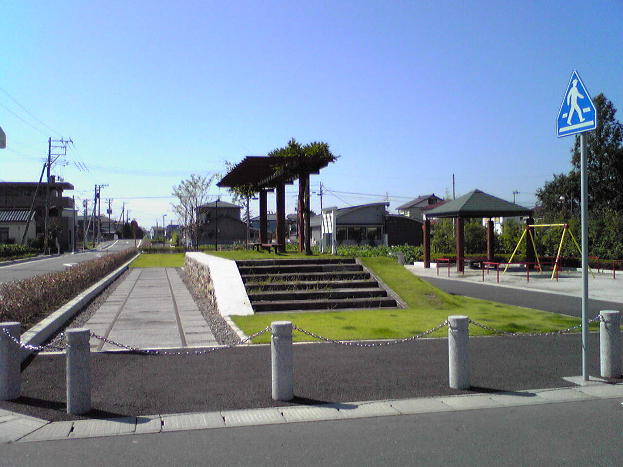 The park which was developed land for in the remains of Ajikata-chugakumae Station, Niigata Kotsu Railway which became the abolished line on April 5, 1999. This station became the abandoned station on April 5, 1999.